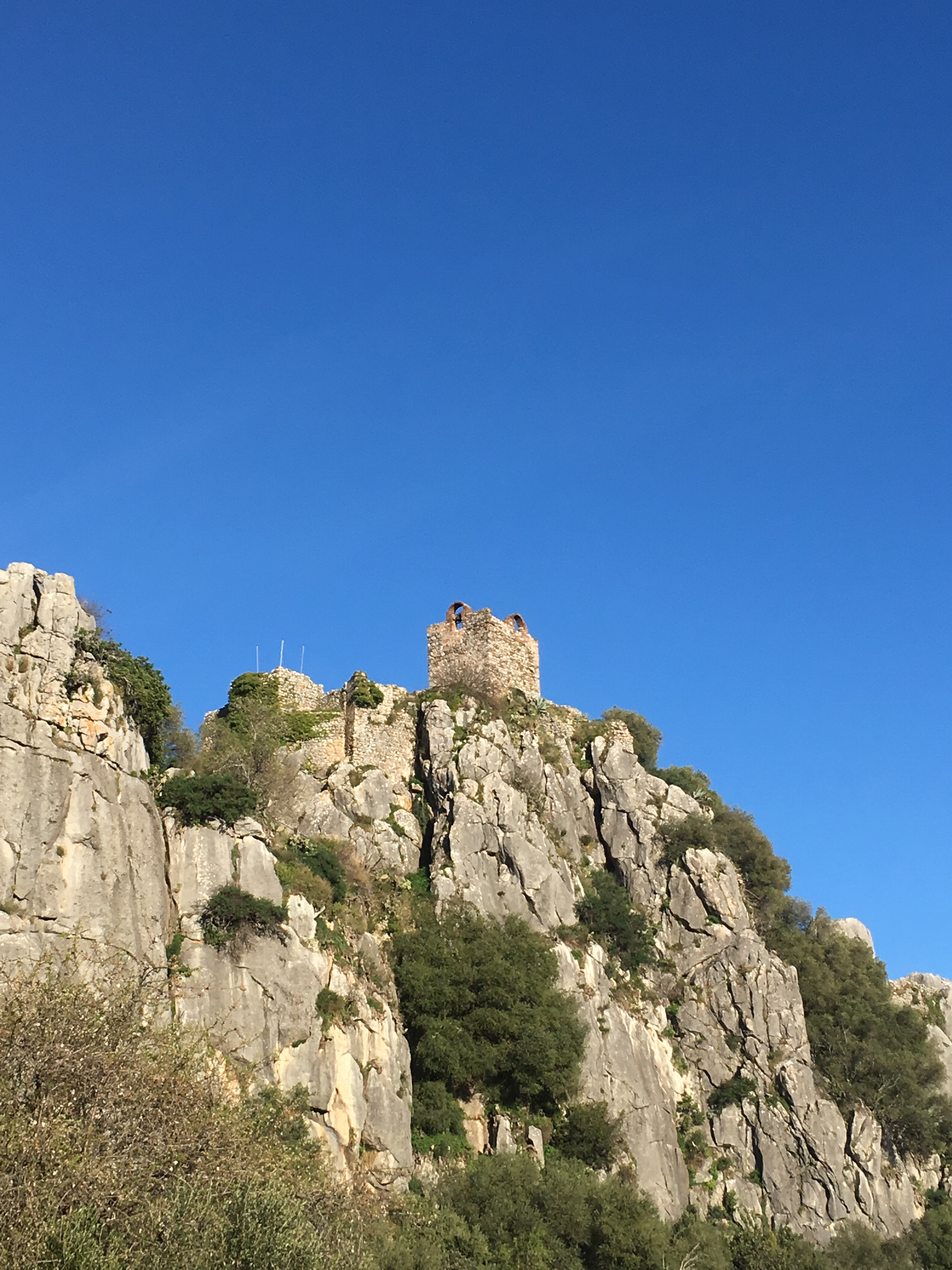 Castillo in Caucín